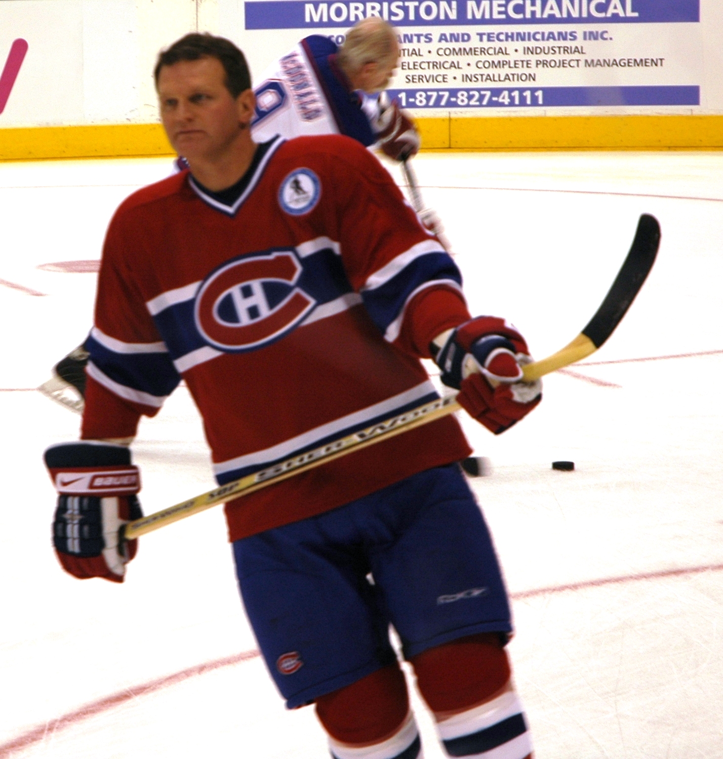 Vincent Damphousse played with Montreal Canadiens Alumni at the Legends Clasic in Toronto